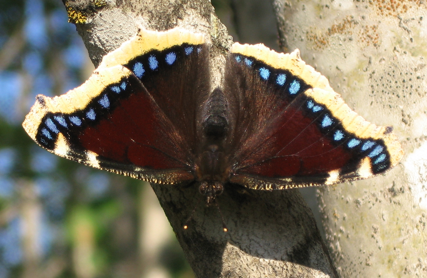 Nymphalis antiopa, Valkmusa National Park, Finland